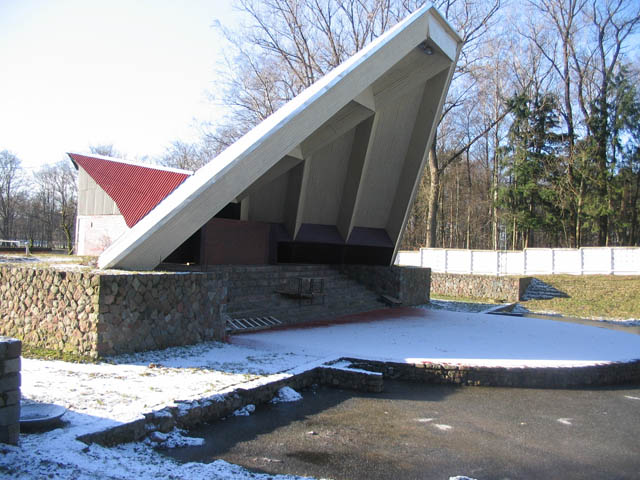 Amphitheatre in Sovetsk